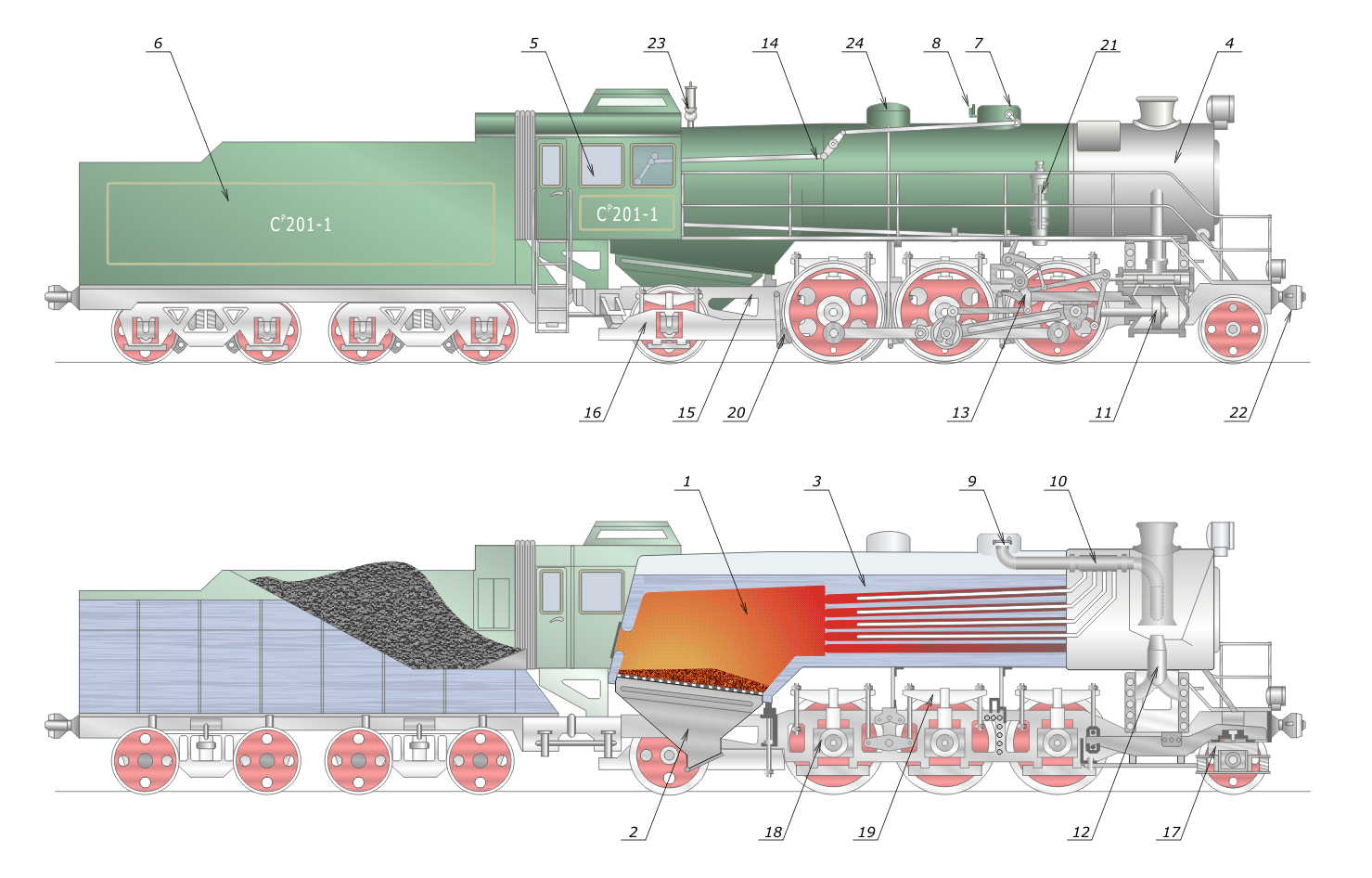 Steam locomotive nomenclature. For a complete key, see main Wikipedia article.